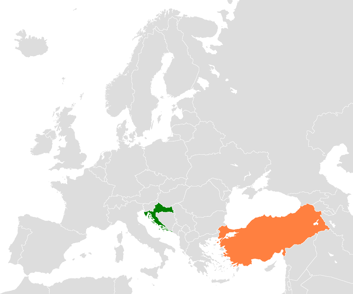 Location of Croatia and Turkey